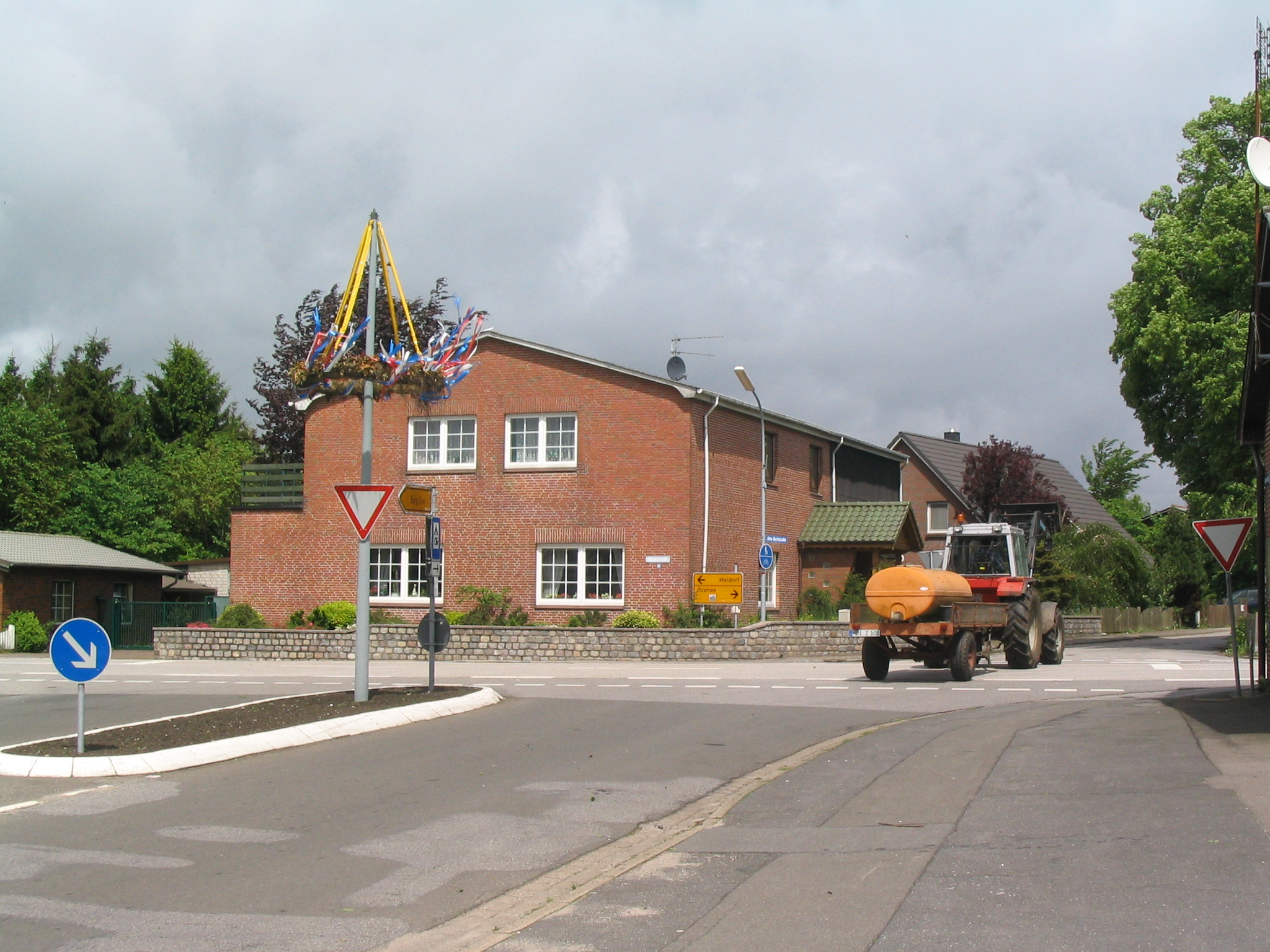 Hochdonn celebrating